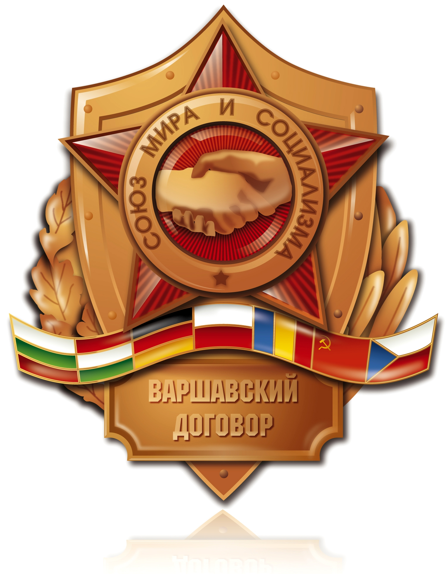 Emblem of the Warsaw Pact ("UNION FOR PEACE AND SOCIALISM"). This representation is wrong, as the Communist emblems in the flags of Bulgaria, East Germany and Romania are missing.